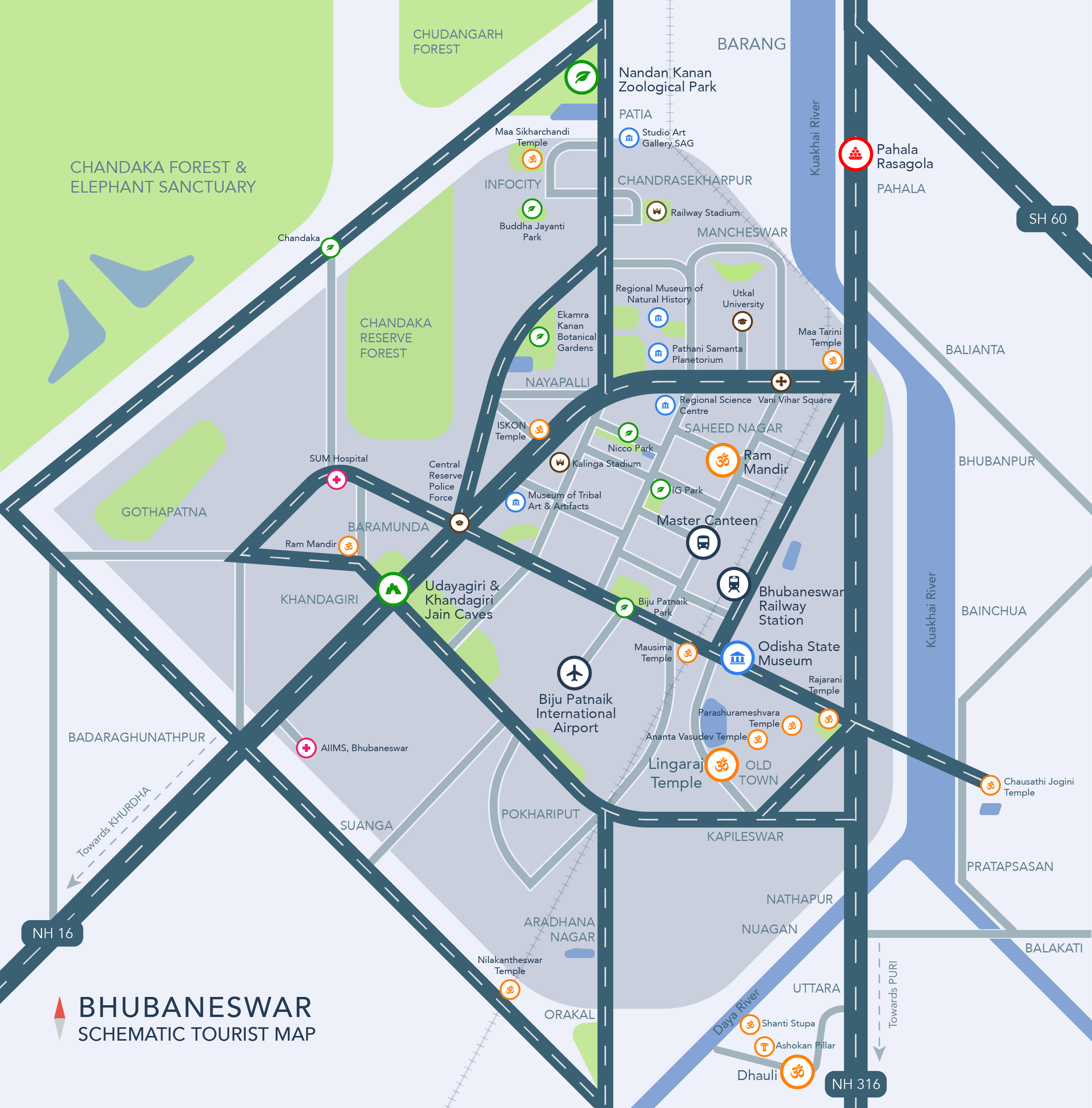 The following is a schematic version of Bhubaneswar Tourism highlighting the best visited tourist attractions with routes connecting, transport connections, nearby landmarks along with minor area information. For better understanding of the places icons are also used.